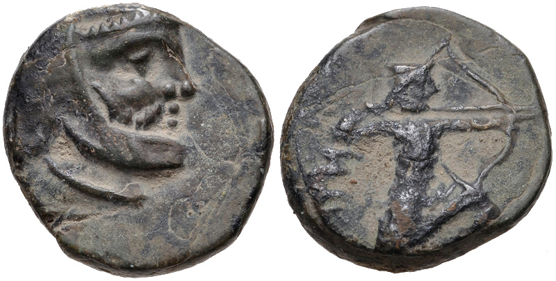 EGYPT, Persian Administration. Sabakes. Circa 335-333 BC